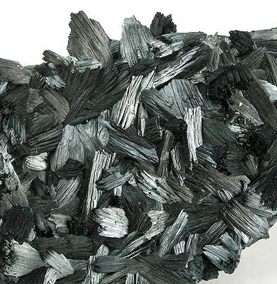 Pyrolusite Locality: Las Cruces, Doña Ana County, New Mexico, USA (Locality at ) Size: 9.2 x 4.6 x 2.1 cm. Pyrolusite (manganese oxide) is not typically seen in specimens that are actually aesthetic; but this 2008 find in New Mexico was an exception. Here, you see it having formed tightly packed "books" of crystals that together create this shimmering, silvery-grey specimen.